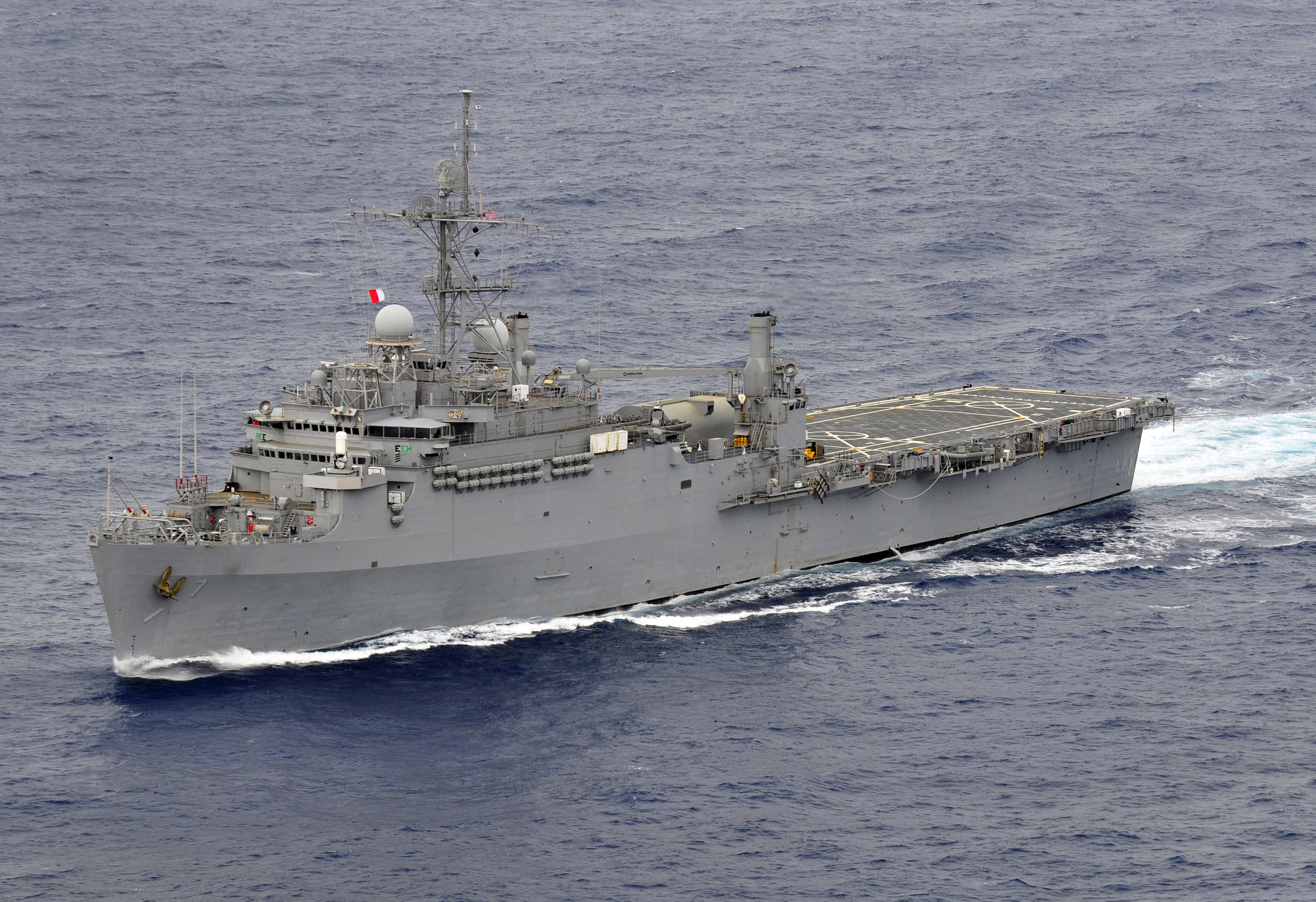 PACIFIC OCEAN (March 24, 2011) The amphibious transport dock ship USS Cleveland (LPD 7) transits the Pacific Ocean. Cleveland is the flagship for Pacific Partnership 2011, which will visit five island nations this summer: Tonga, Vanuatu, Papua New Guinea, Timor-Leste, and the Federated States of Micronesia. Pacific Partnership 2011 is a humanitarian assistance initiative, which promotes cooperation throughout the Pacific. (U.S. Navy photo by Mass Communication Specialist 2nd Class Michael Russell/Released)